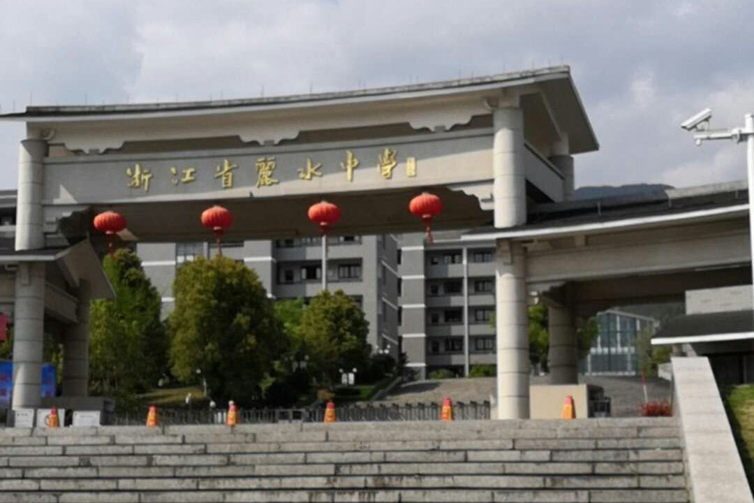 The gate of Lishui High School